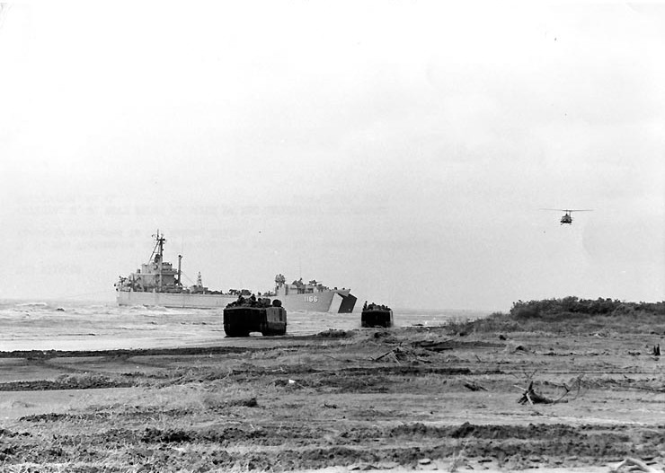 "U.S. and South Vietnamese combat troops move ashore during 'Operation Deckhouse V' recently conducted in the Mekong Delta." (Quoted from the original photo caption, released by the Department of Defense on 27 January 1967) Two U.S. Marine Corps amphibious tractors are moving along the beach in the foreground, with a UH-1 helicopter approaching at right. USS Washtenaw County (LST-1166) is in the background.